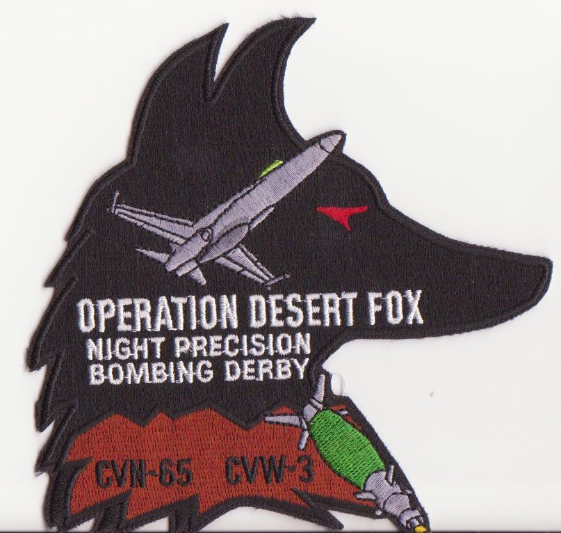 Logo from Operation Desert Fox, USS Enterprise (CVN-65)